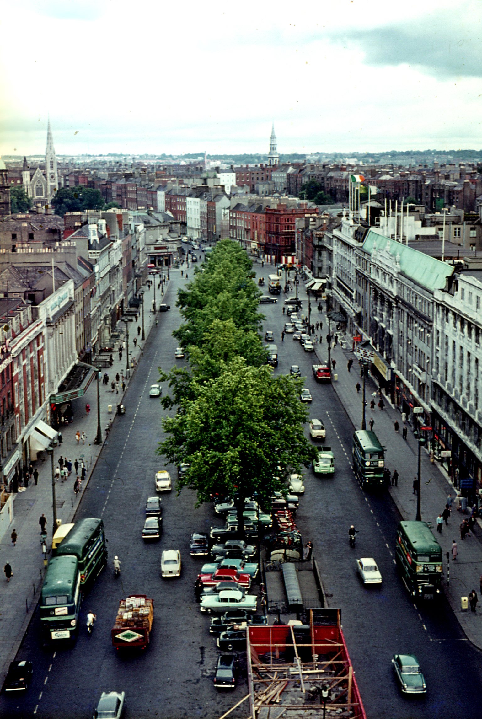 O'Connell St., Dublin seen from from Nelson's Pillar viewing platform in 1964